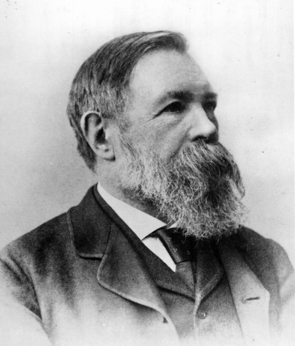 portrait of Friedrich Engels in 1891